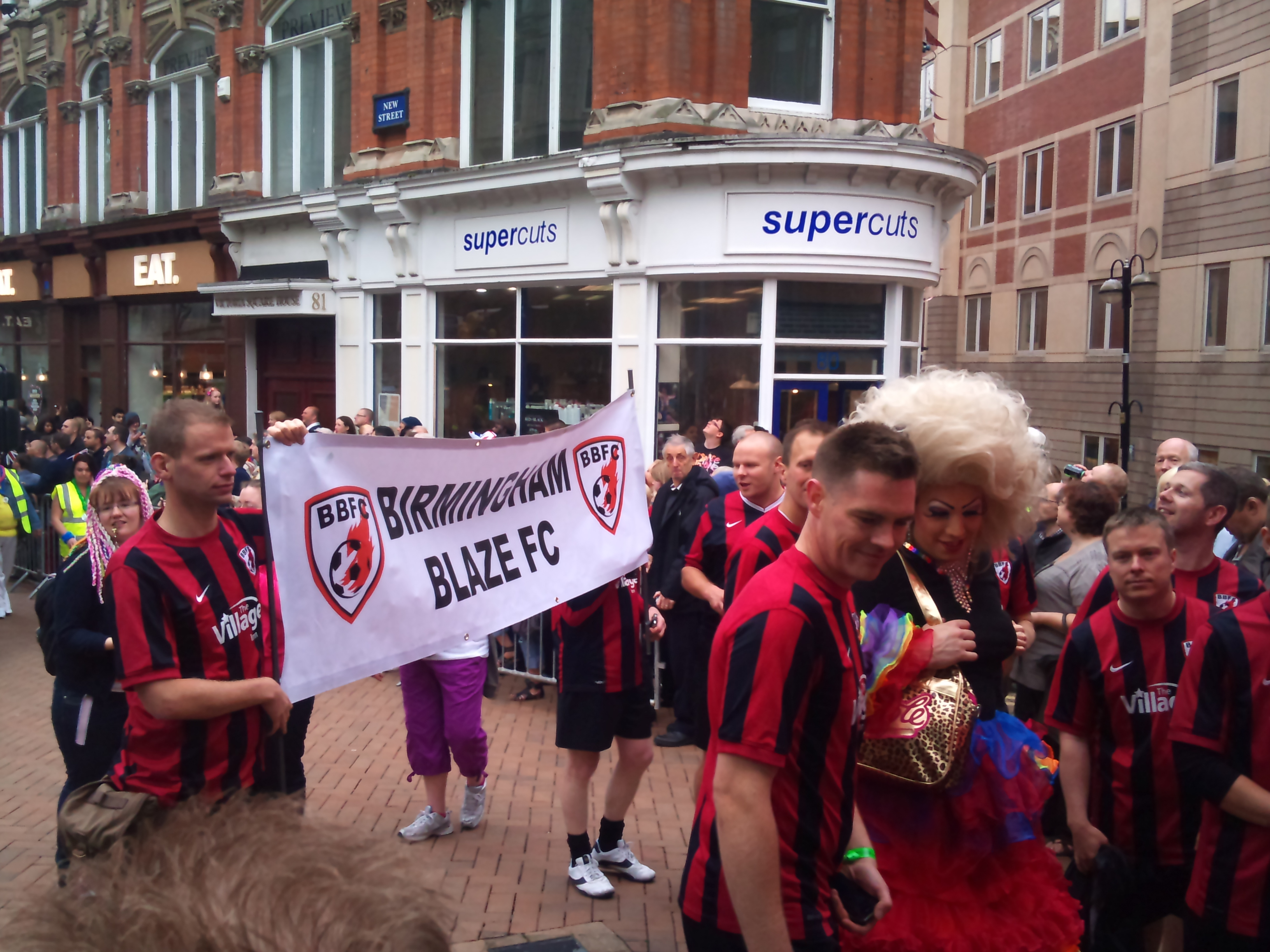 Birmingham Blaze Football Club at Birmingham Pride 2012